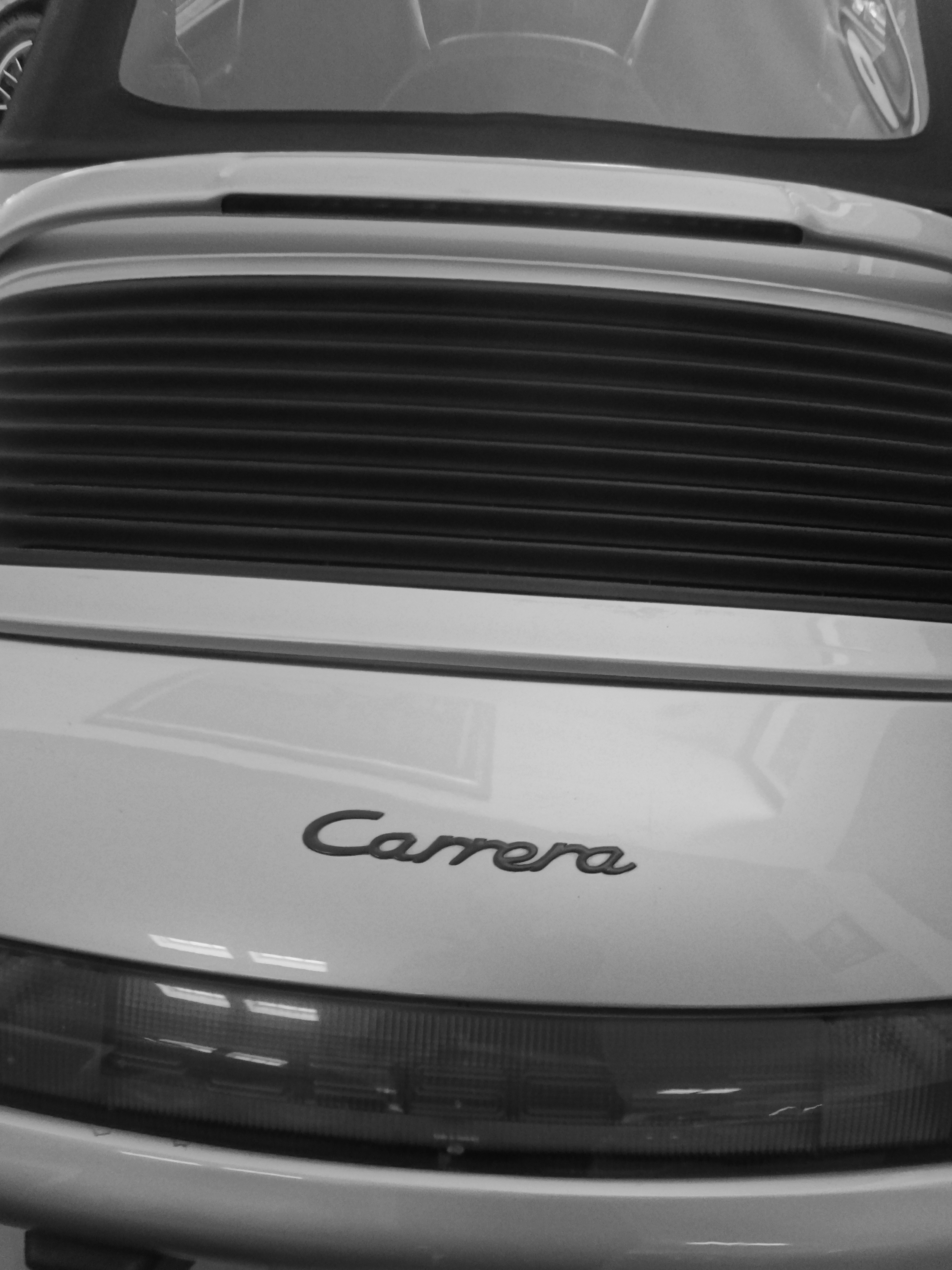 Porsche 911 Carrera Convertable Photography by David Adam Kess (Classic Automobiles) Photography by David Adam Kess